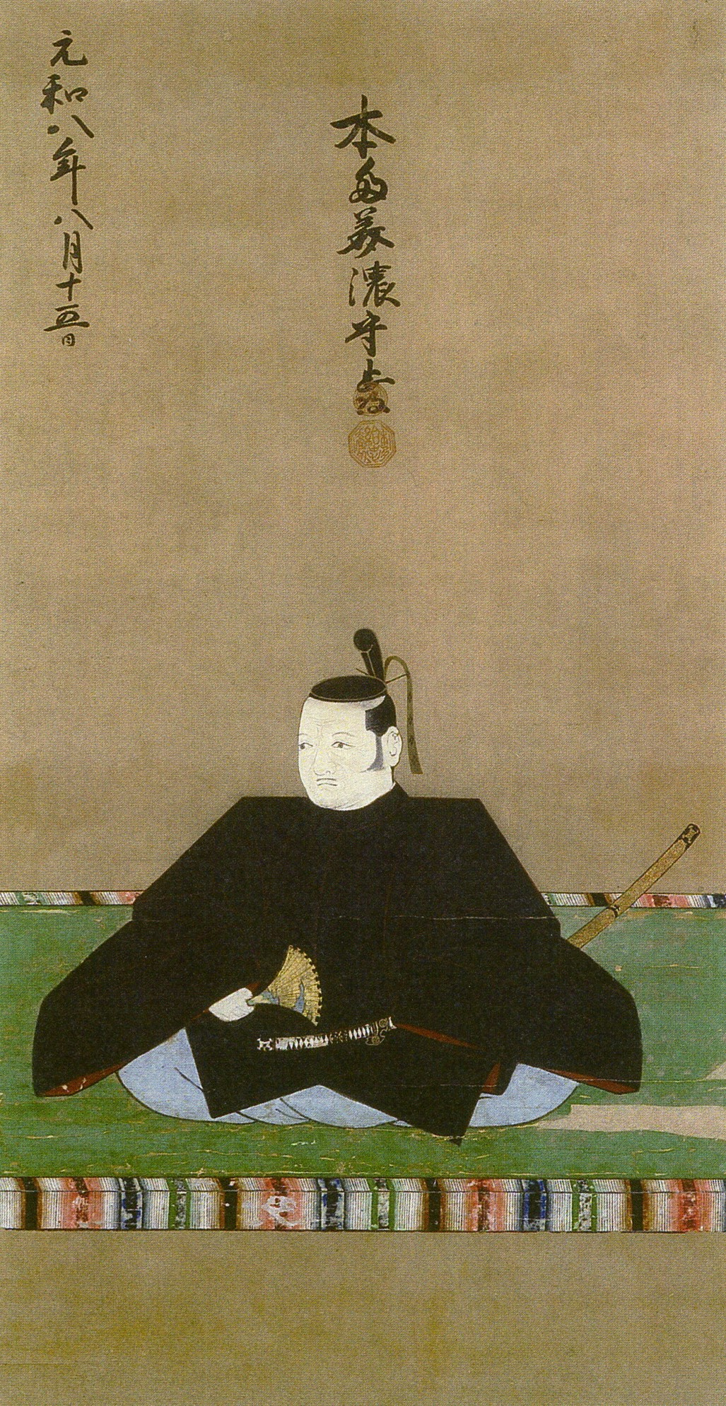 Portrait of Honda Tadamasa